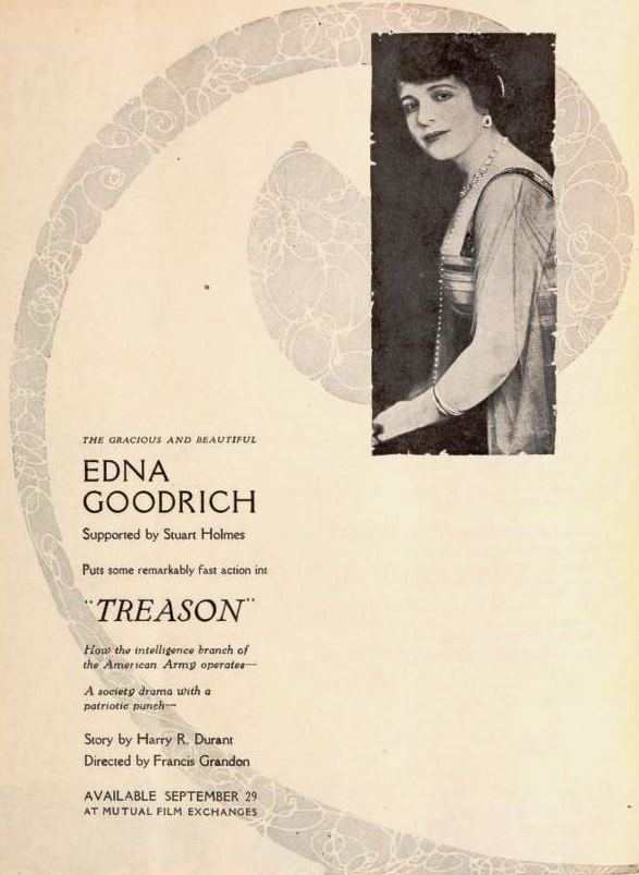 Advertisement for the American drama film Treason (1918) with Edna Goodrich, on page 3 of the October 5, 1918 Exhibitors Herald.